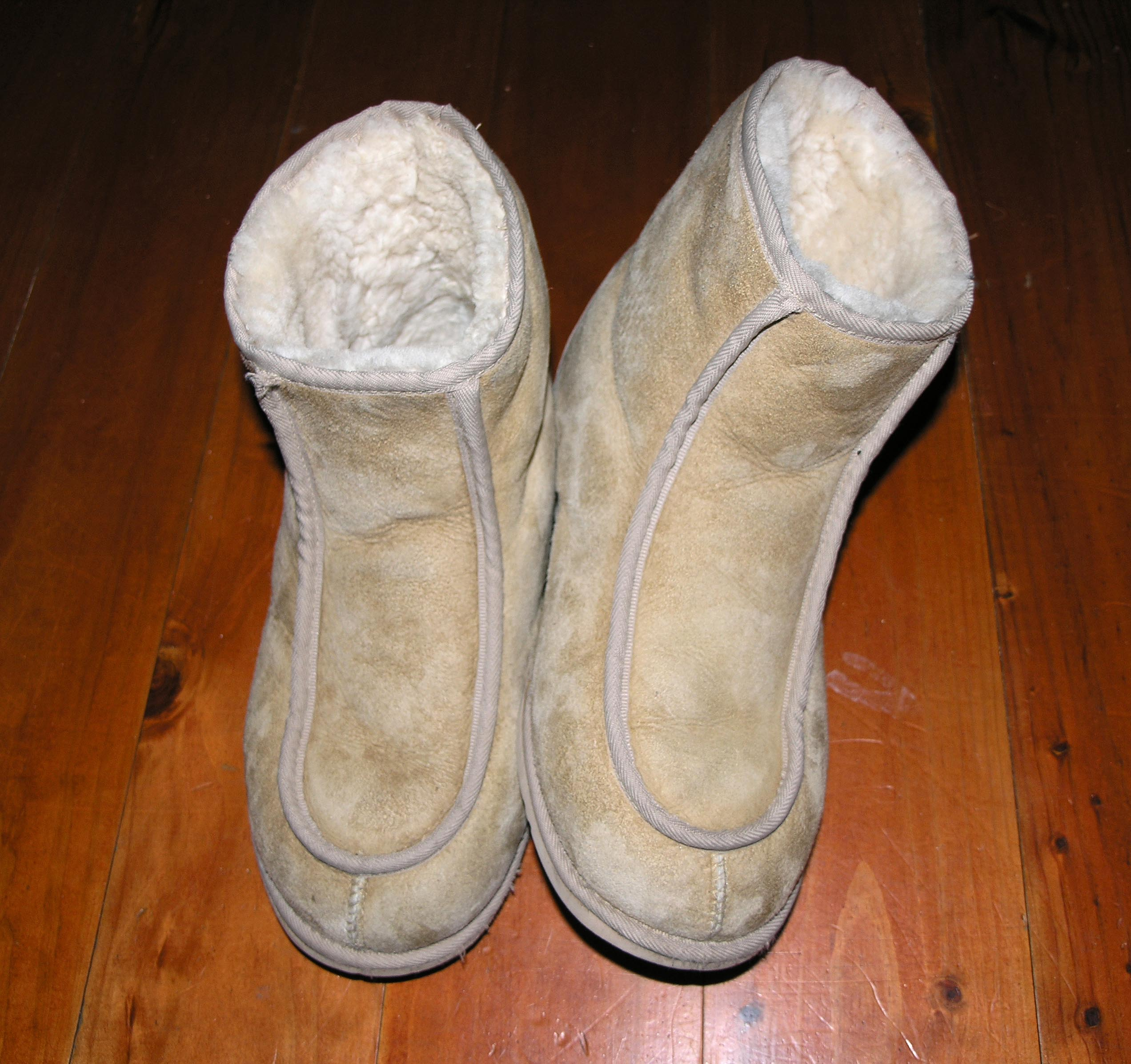 Mens Ugg boots. Replaces a file on english wiki.